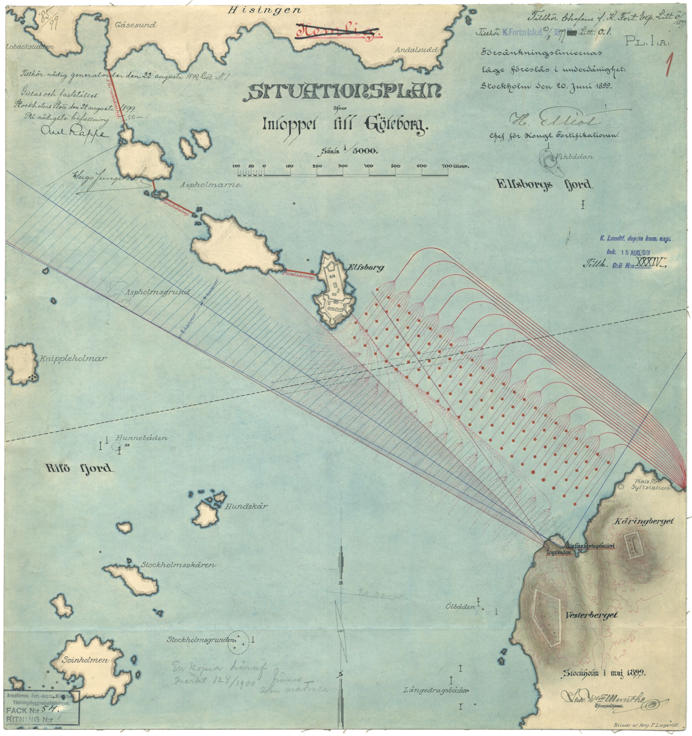 Declassified map showing the entrance to Gothenburg harbour, with planned defences 1899.